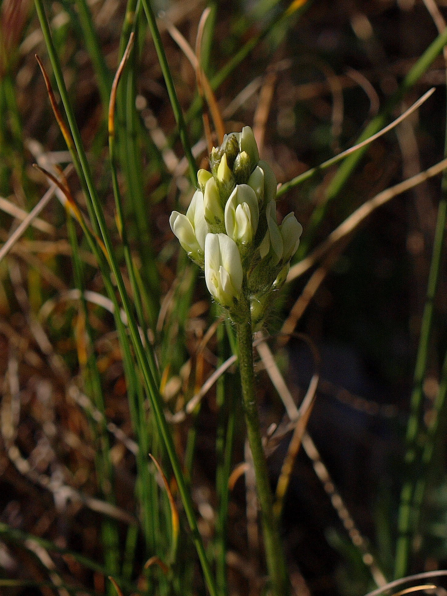 Oxytropis dinarica ssp. dinarica var. macrocarpa leg Cikovac 2015 Bijela gora Borovi do